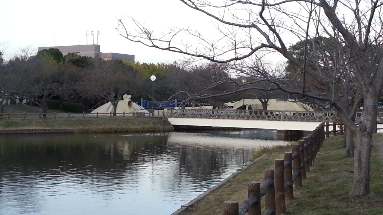 This picture was taken at Otto-Numa Park